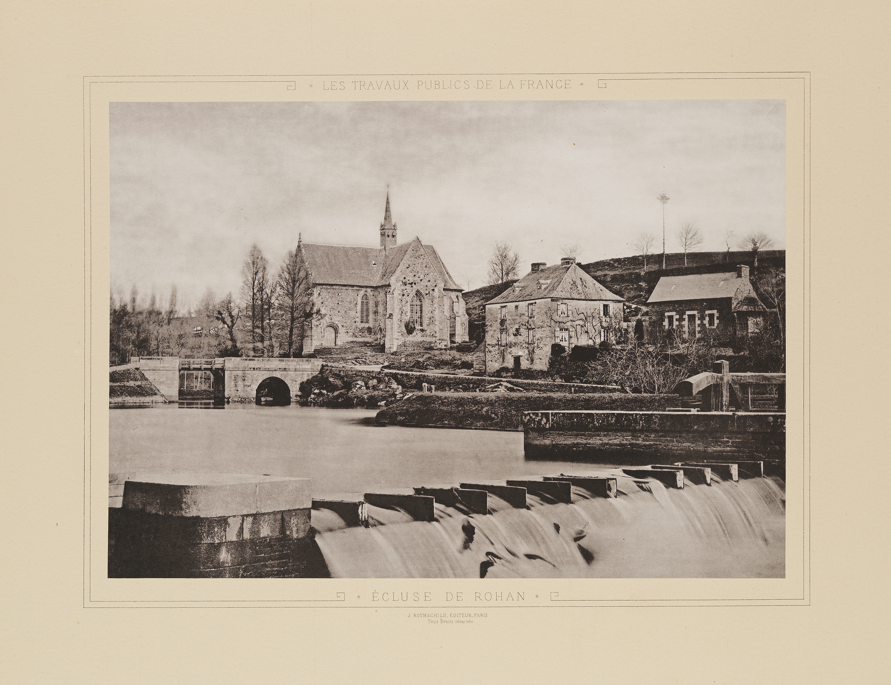 Title: Ecluse de Rohan Alternative Title: Rohan Lock Creator: Unknown Date: 1883 Part Of: Les Travaux Publics de la France, Tome Troisieme: Rivieres et Canaux, Eaux des Villes - Irrigation et Assainissement des Terres Place: Rohan. Morbihan, Brittany, France Physical Description: 1 photographic print: collotype; 26 x 35 cm on 40 x 56 cm mount File: vault_folio_2_ta71_a4_1883_3_34_opt.jpg Rights: Please cite Southern Methodist University, Central University Libraries, DeGolyer Library when using this image file. A high-quality version of this file may be obtained for a fee by contacting . For more information, see